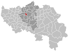 Map, municipality belgium Saint-Nicolas